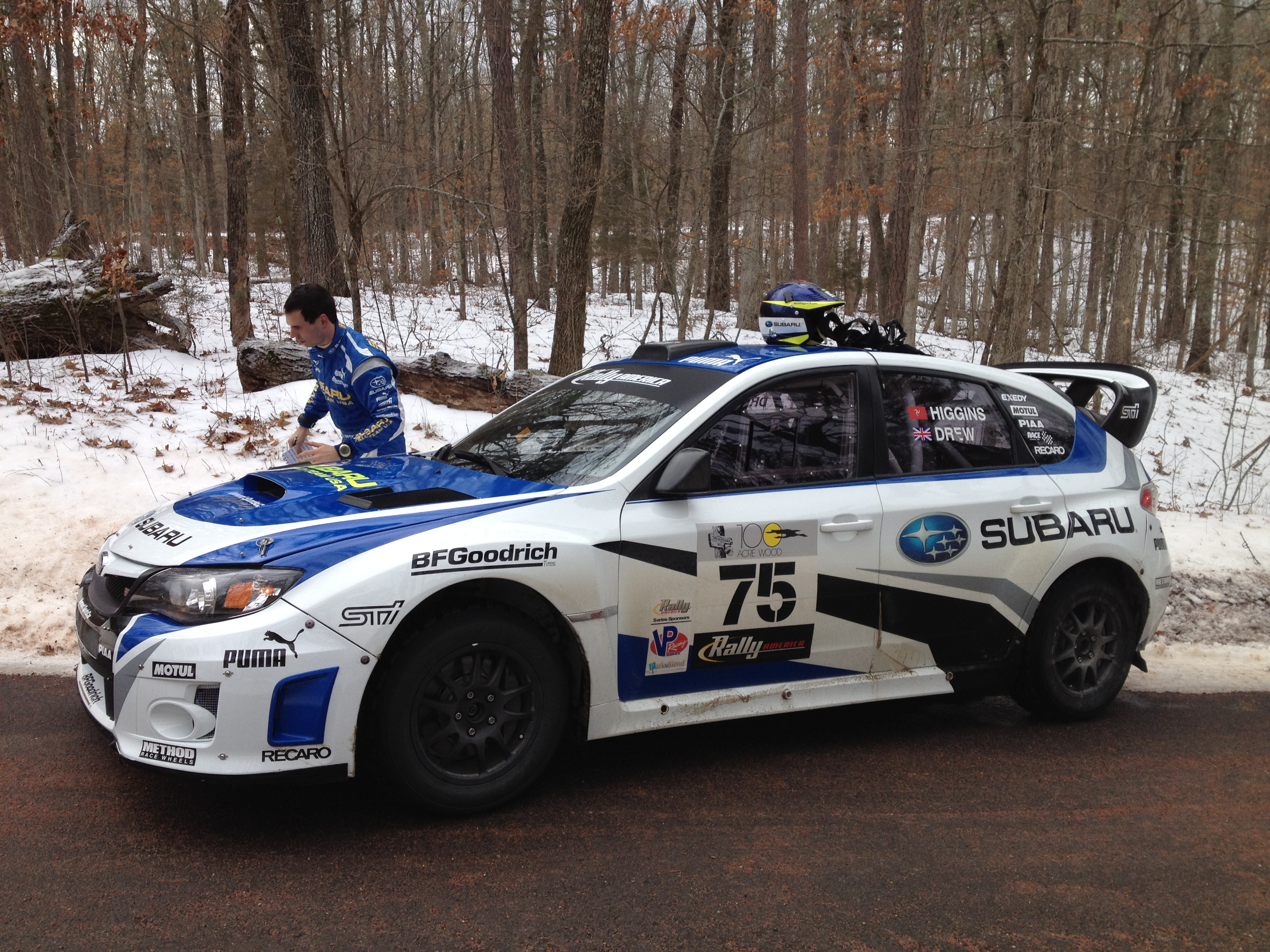 David Higgins' Subaru Rally Car from the Rally in the 100 Acre Wood in Salem Missouri, USA. February 22, 2013